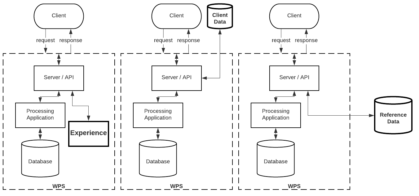 Different modes of a Knowledge as a Service that all imbue its outputs with something beyond the data/information/computation offerings of a Data as a Service or a Web Processing Service. (left) Experience (of type unspecified) is added to a DaaS or a WPS, (centre) Additional client data is sourced by the KaaS to better understand the client's context, (right) Reference Data is accessed by the KaaS which allows it to provide a service beyond what it could with only primary data